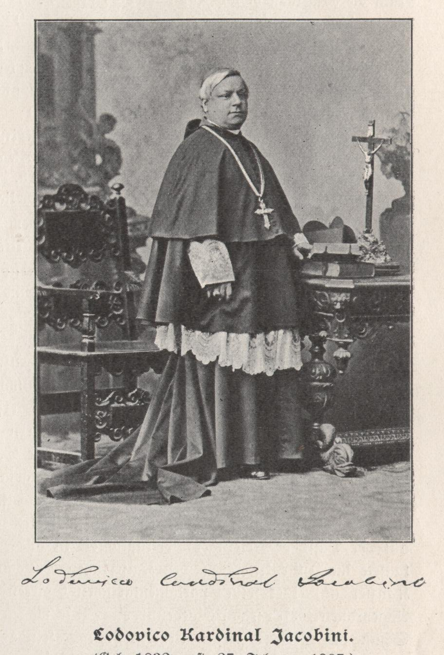 Cardinal Ludovico Jacobini